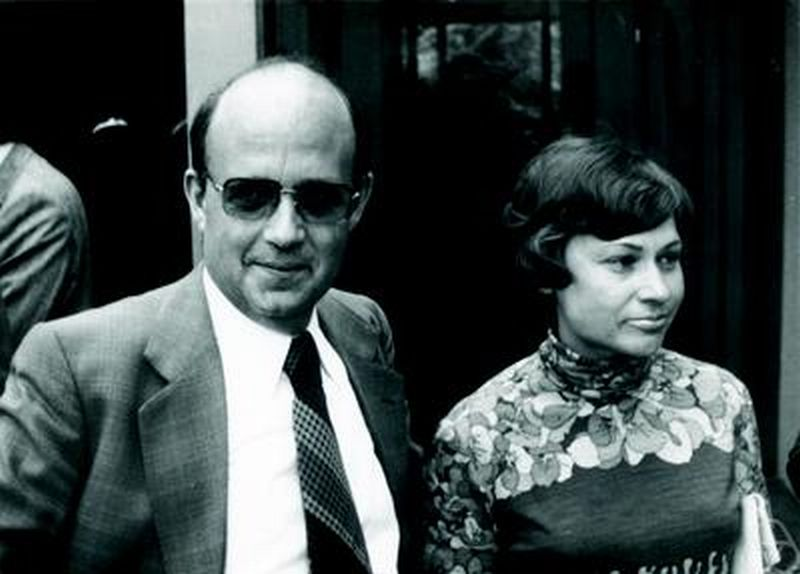 Helmut Klingen, Oberwolfach 1975